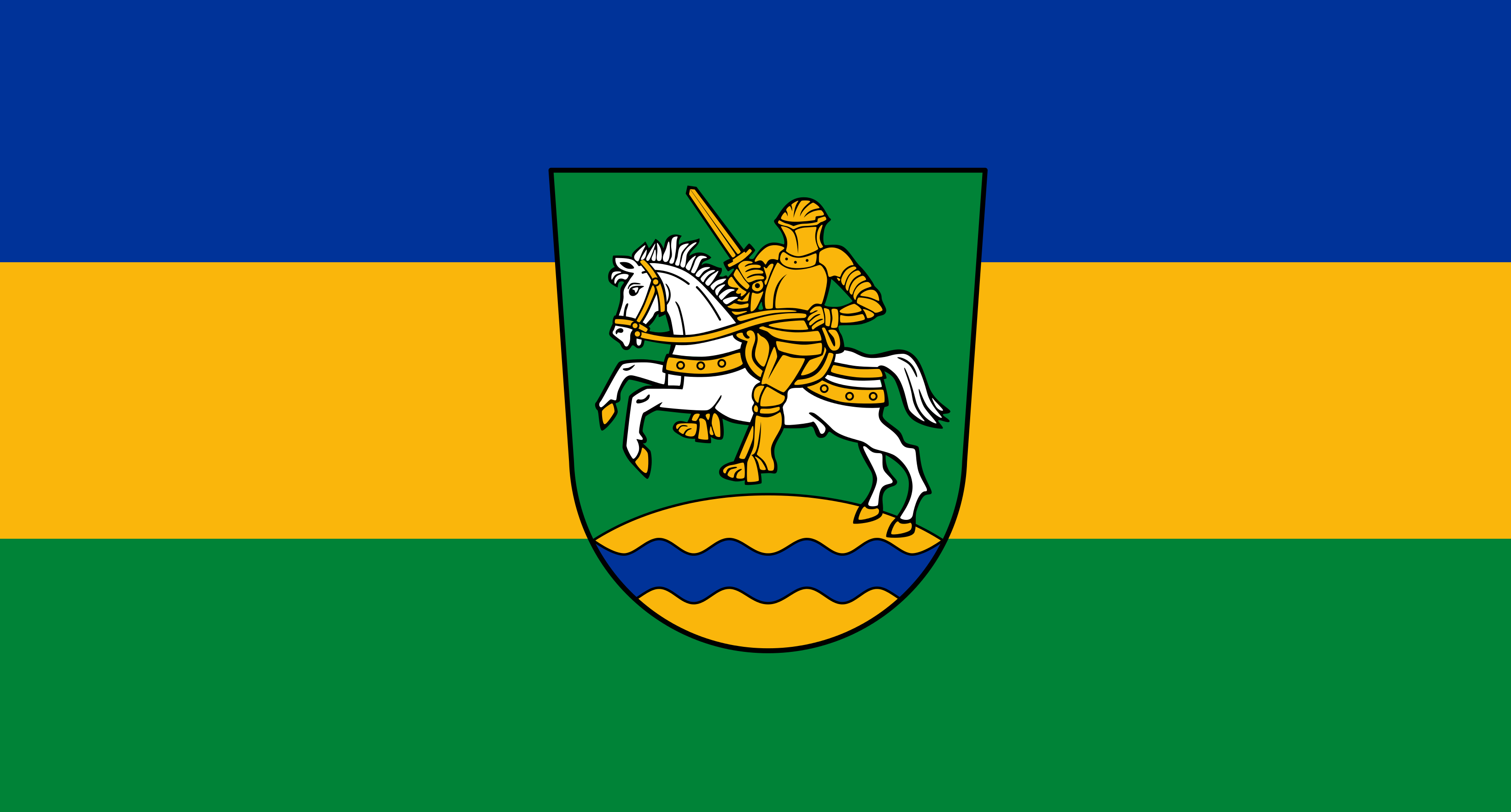 Former (until 2004) flag of Rüterberg, Mecklenburg-Vorpommern, Germany